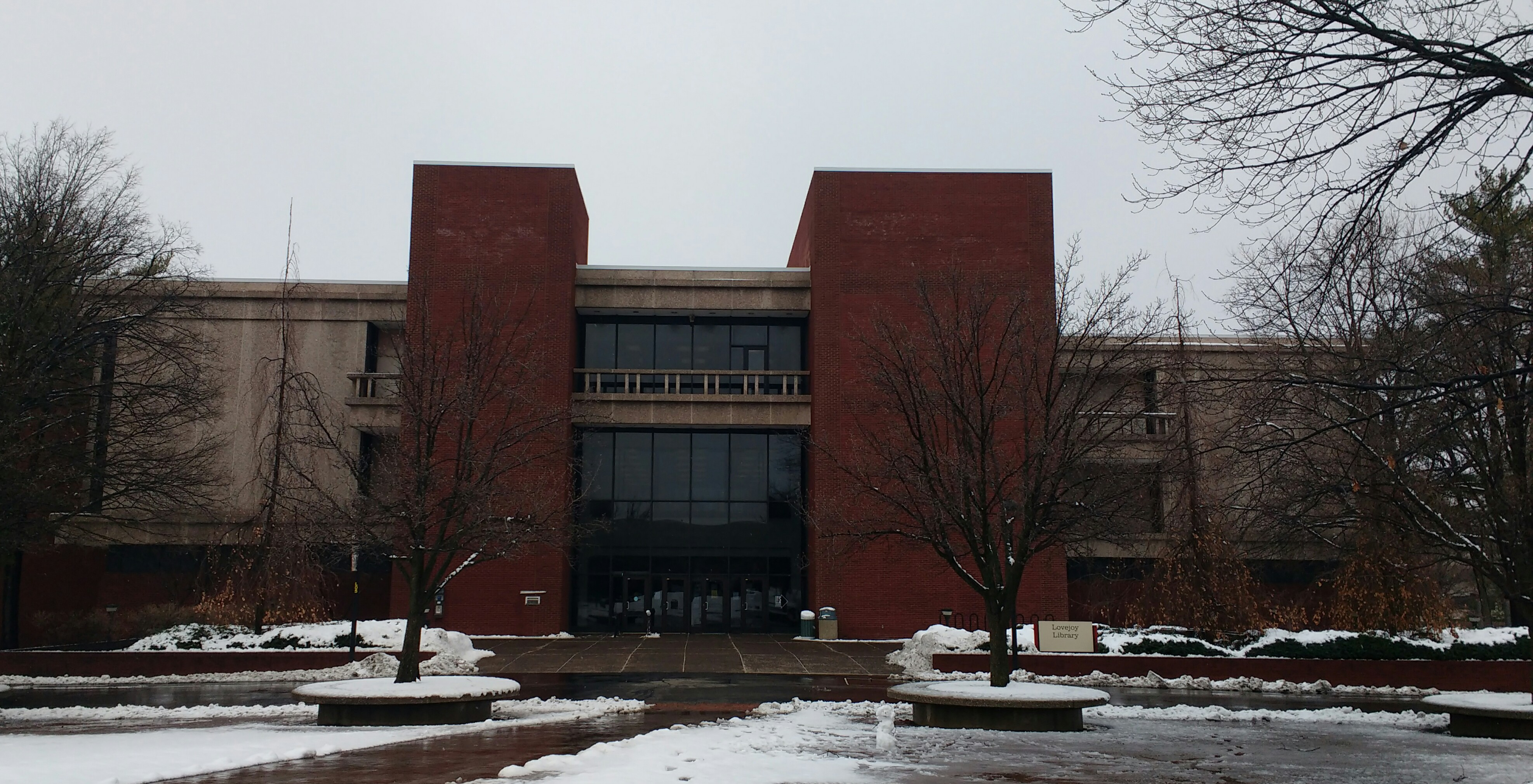 South entrance